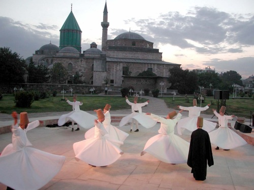 Whirling dervishes at Mausoleum of Mevlana, Konya, Turkey.